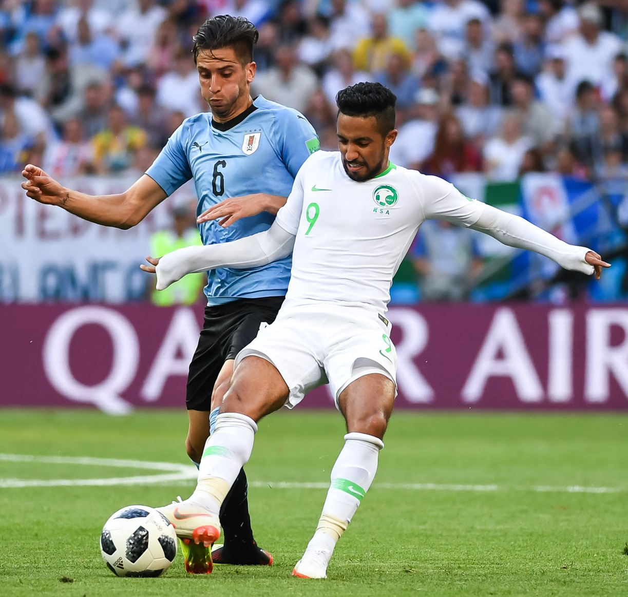 Hattan Bahebri (R) playing for Saudi Arabia in a game against Uruguay at the 2018 FIFA World Cup. Rodrigo Bentancur is on the left.